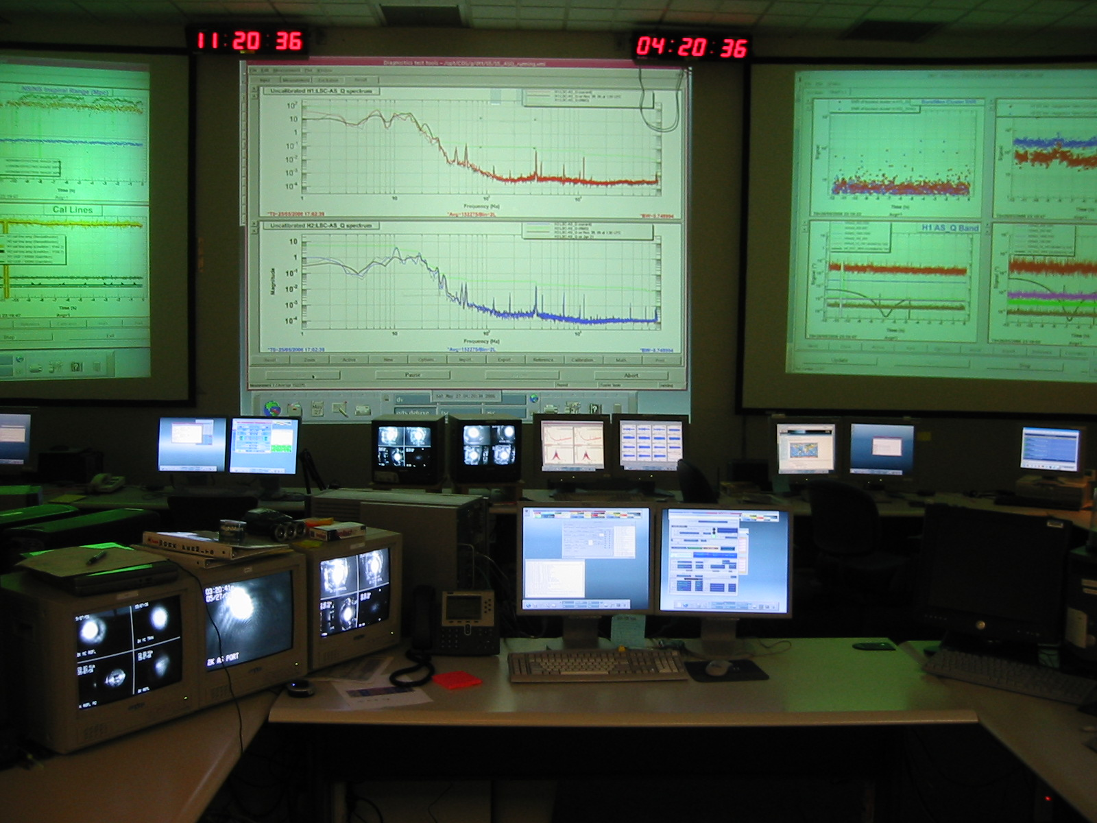 The LIGO Hanford Control Room. Photo taken by Tobin Fricke and uploaded by Philip Neustrom with permission to release under the public domain.